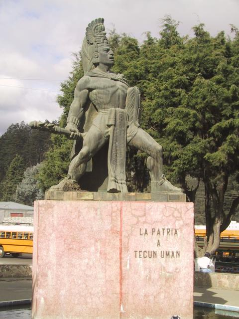 The following is an image of the statue of the last Quiché-Maya ruler, Tecún Umán. (Quetzaltenango, Guatemala); sculptor: Rafael Yela Günther